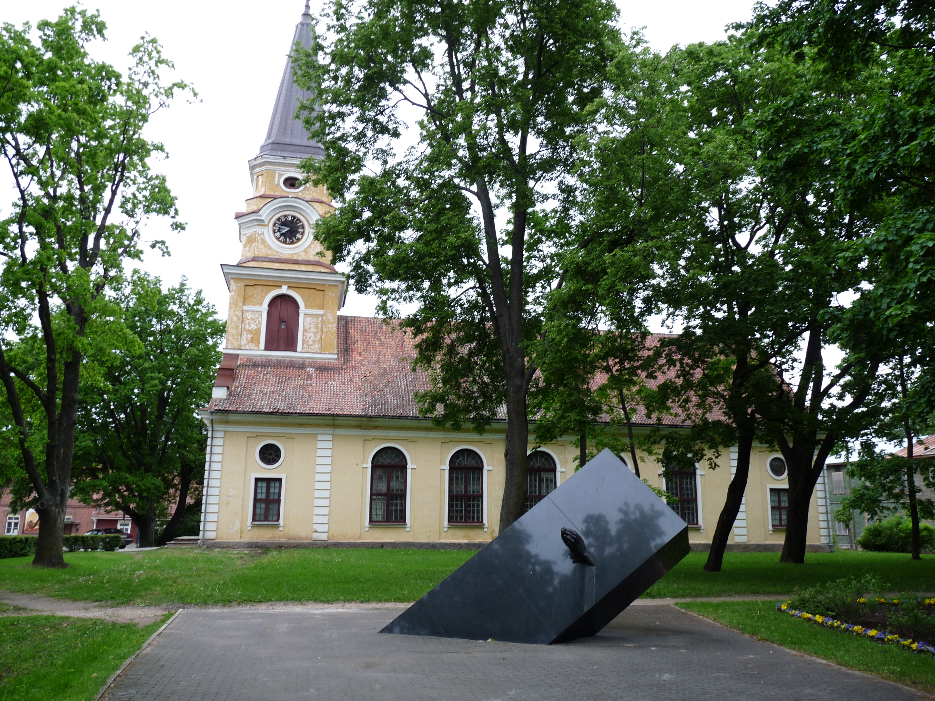 The memorial for the "Estonia" tragedy and the lutheran church behind it in Võru